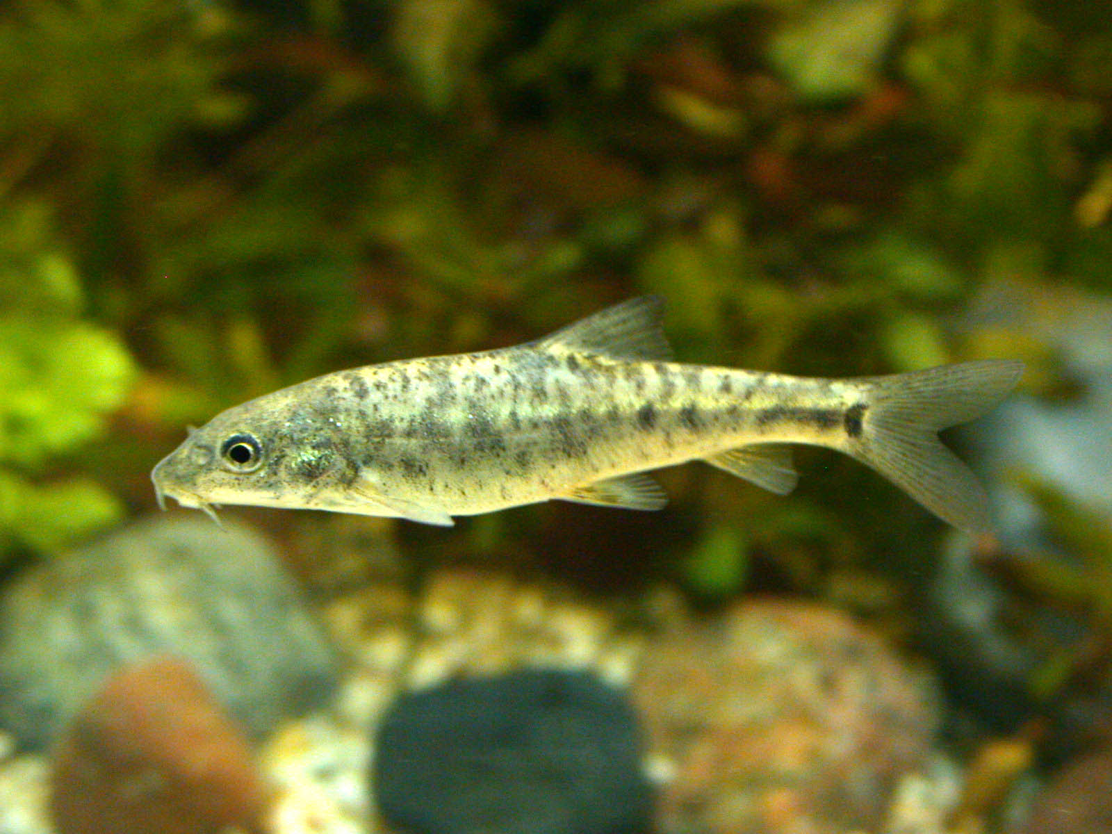 Juvenile barbel (Barbus Barbus) in first autumn. Origin: River Mangfall/Germany.